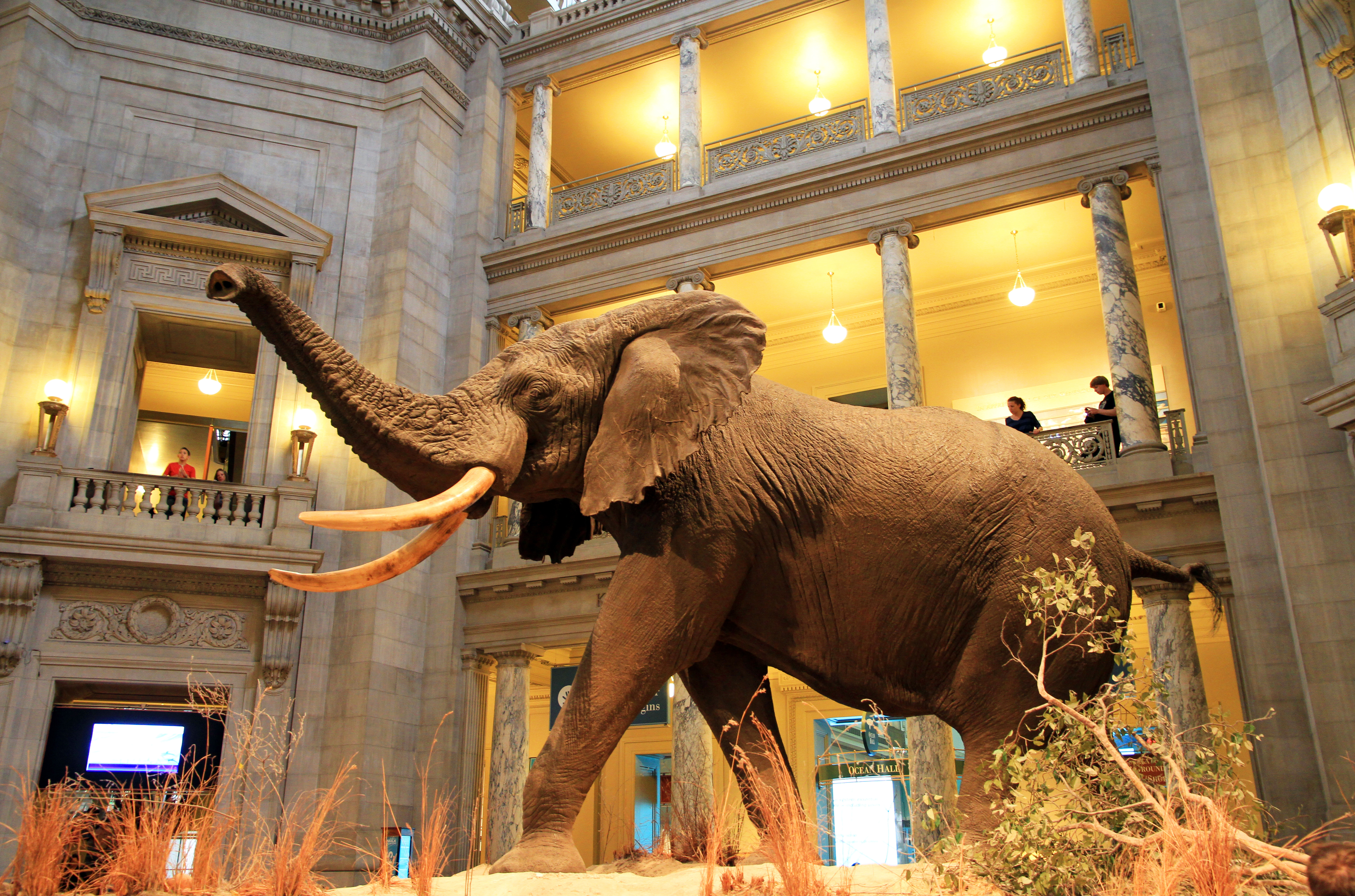 National Museum of Natural History